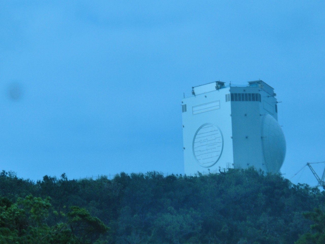 JFPS-5 in Okinawa